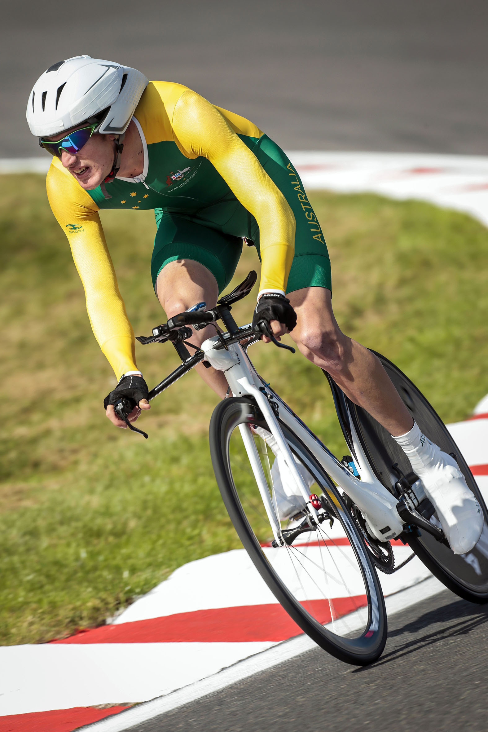 Photograph of Australian Paralympic team member David Nicholas at the 2012 Summer Paralympic Games in London